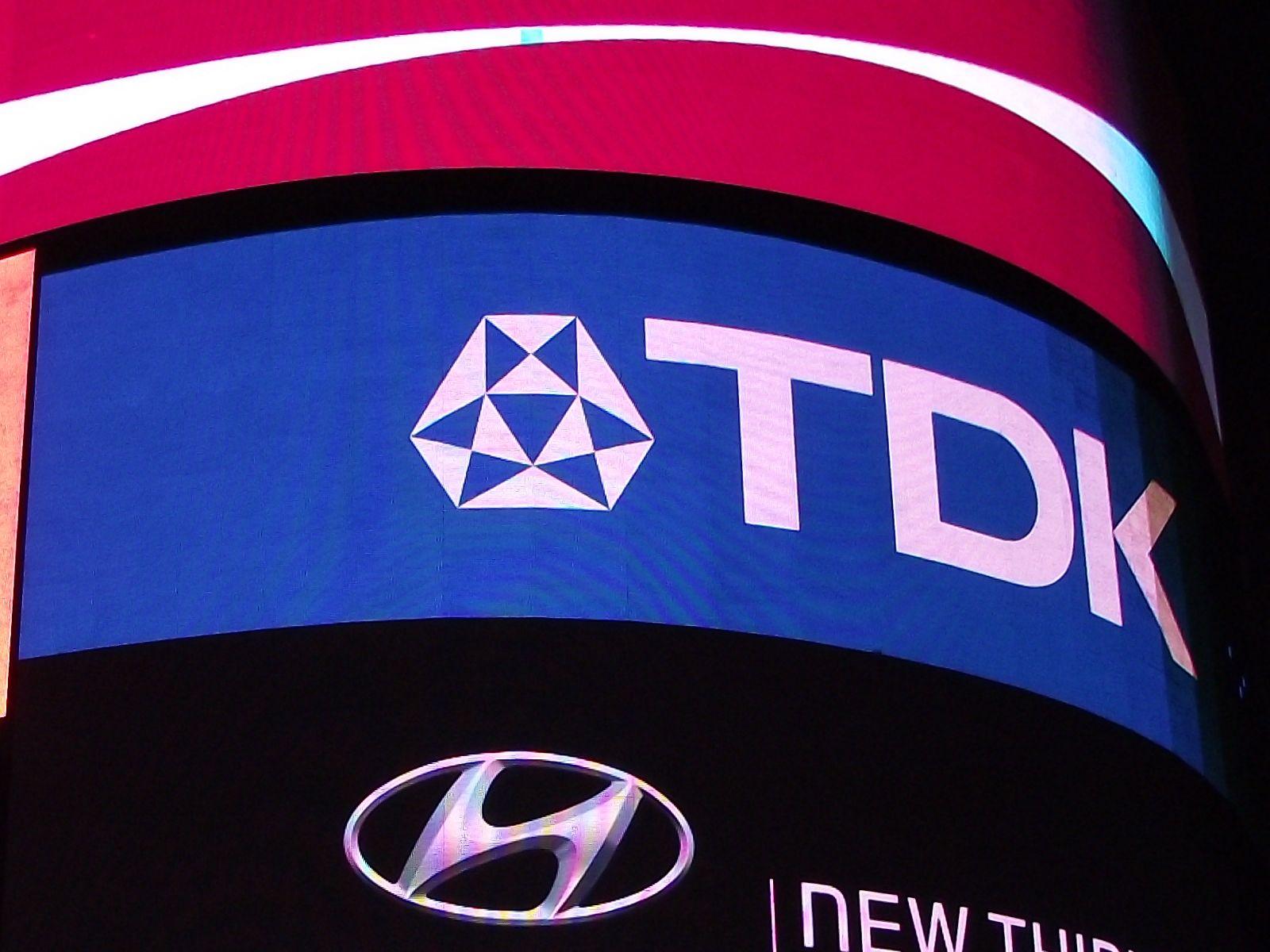 A close up of the TDK sign at Piccadilly Circus, London. The Japanese electronics company have had a sign there since 1990, originally made of neon lights. It was upgraded to an animated LED screen in 2010.